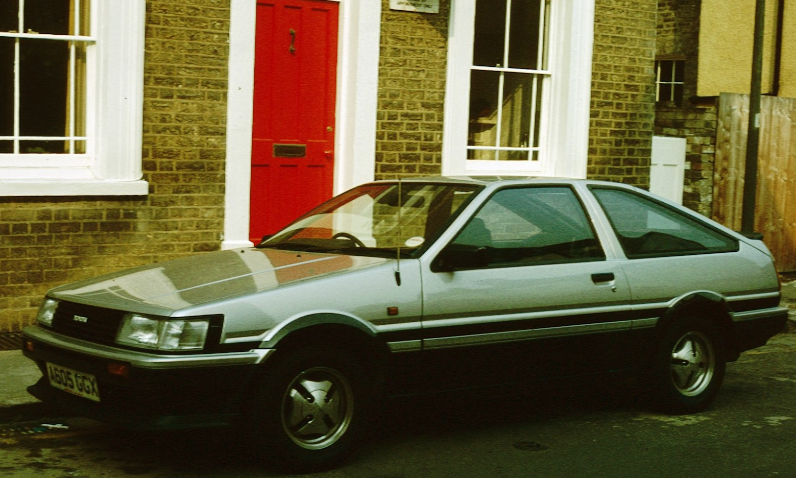 Toyota Corolla Levin 1600 GT (AE86) The car was photographed in "The Kite" district (somewhere between the back of the Police station on Parker's Piece and the start of the Newmarket Road) of Cambridge. The district is slightly interesting because much of was subsequently "redevelopped" as a shopping Centre (The Grafton Centre) amid much delay and controversy caused by above average economic uncertainty and widespread opposition to the destruction of streets of traditionally styled terraced houses that contained many rooms suitable for hiring out to students.